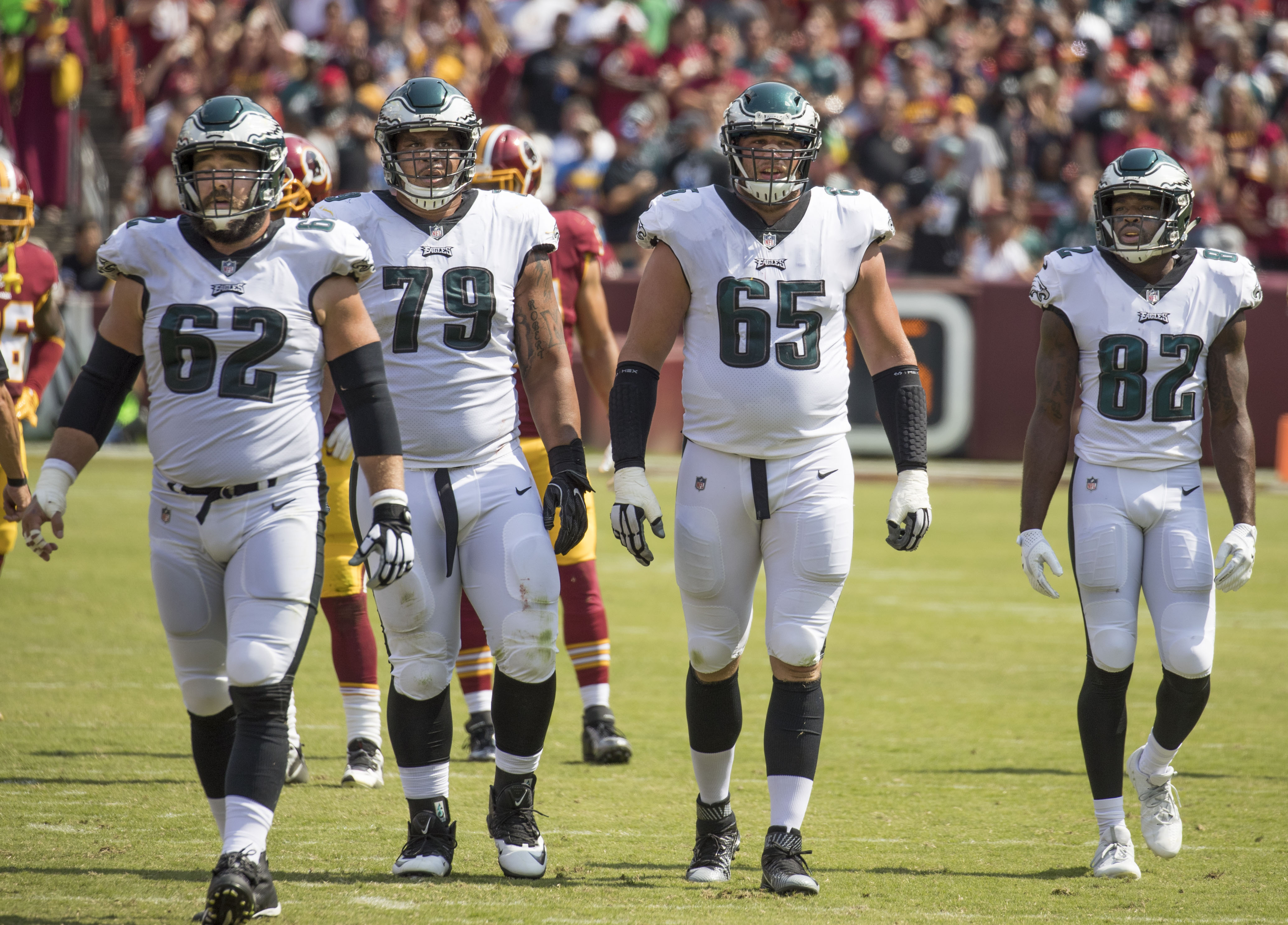 Jason Kelce (#62), Brandon Brooks (#69), Lane Johnson (#65), Torrey Smith (#82)